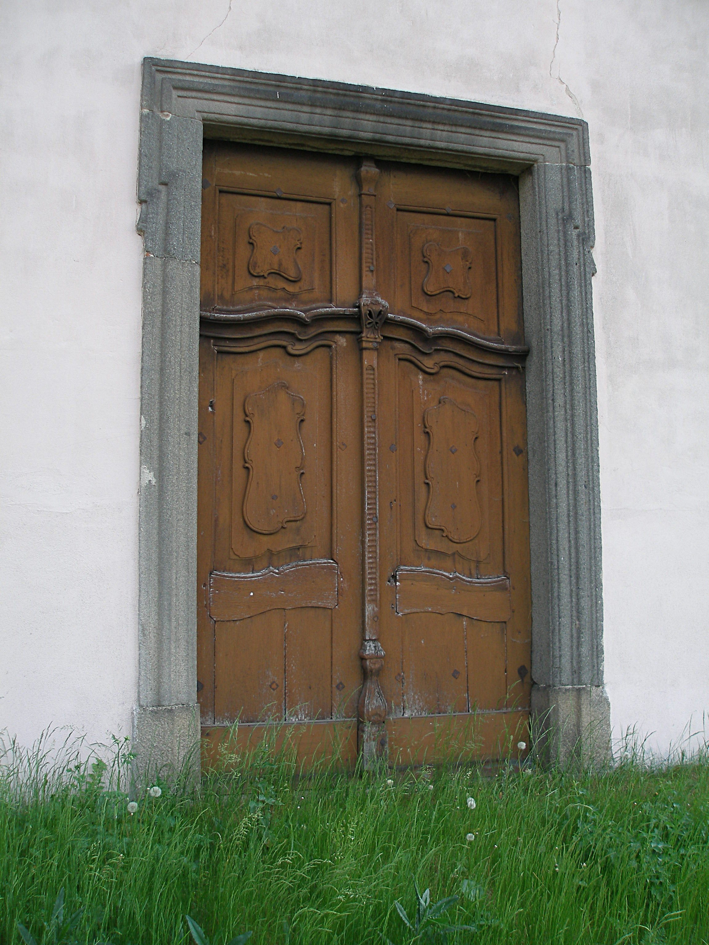 Non-used northern door into the church